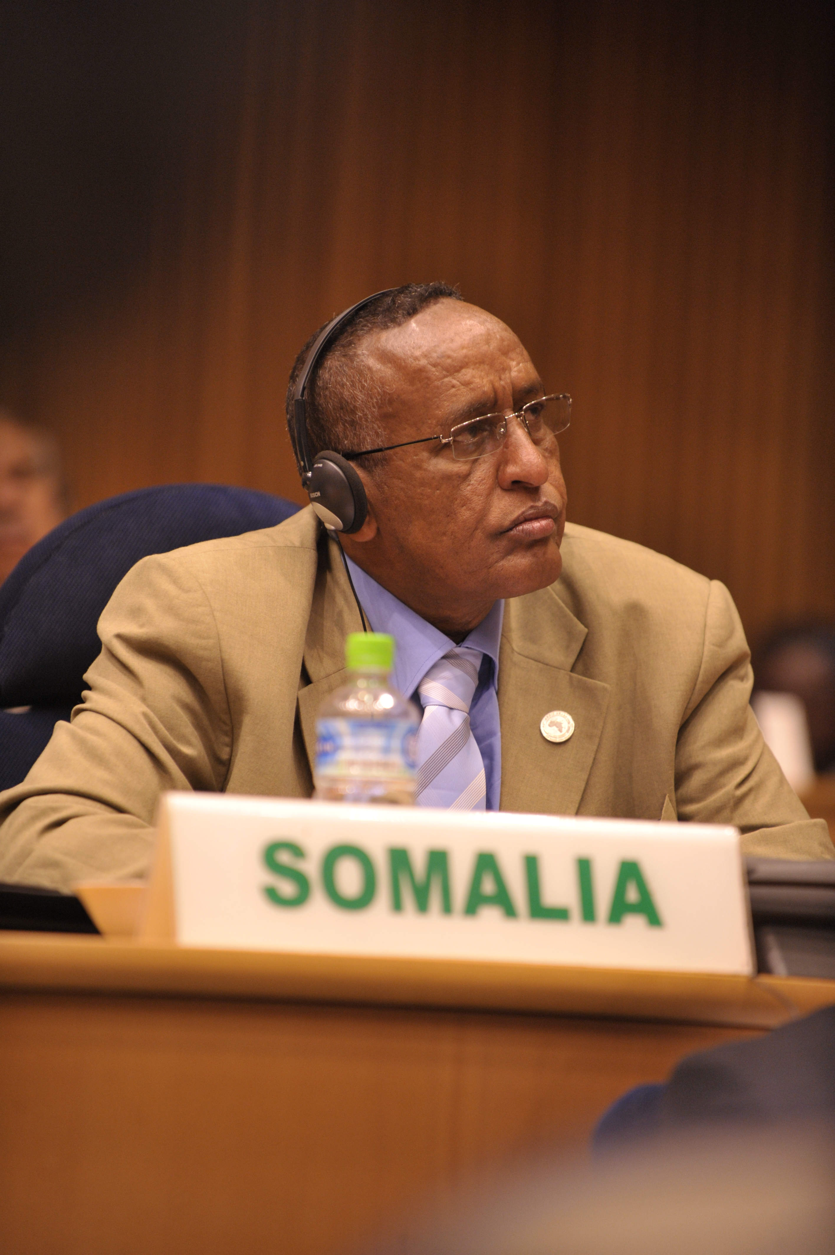 A Somali delegate sits in the Plenary Hall of the African Union (AU) compound in Addis Ababa, Ethiopia, during the opening session of the 14th Ordinary Session of the Executive Council of the AU, January 29, 2009.